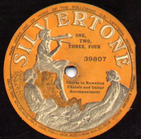 Silvertone Records gramophone record label, c. 1909